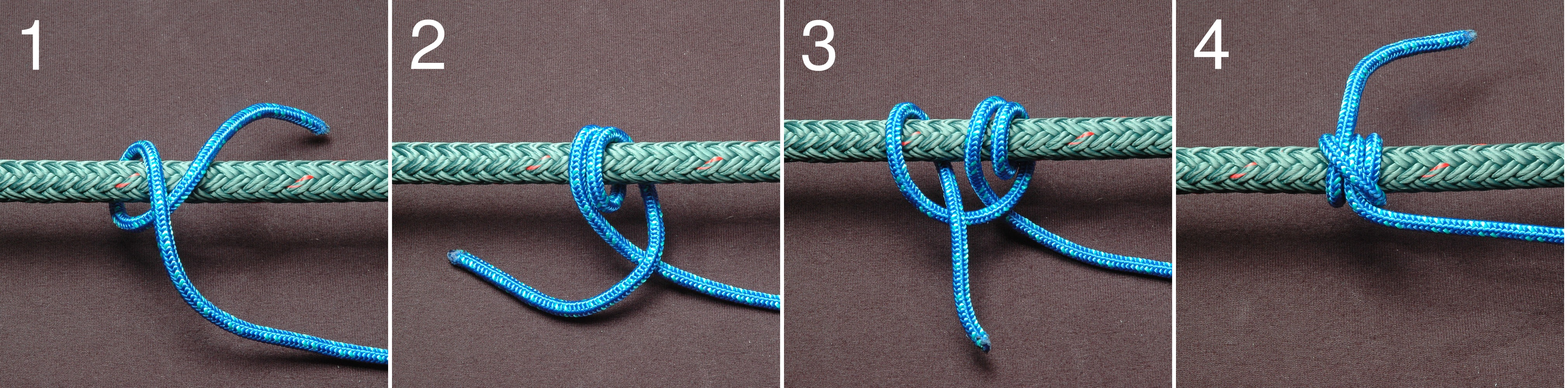 Four steps in tying ABOK "Rolling hitch"